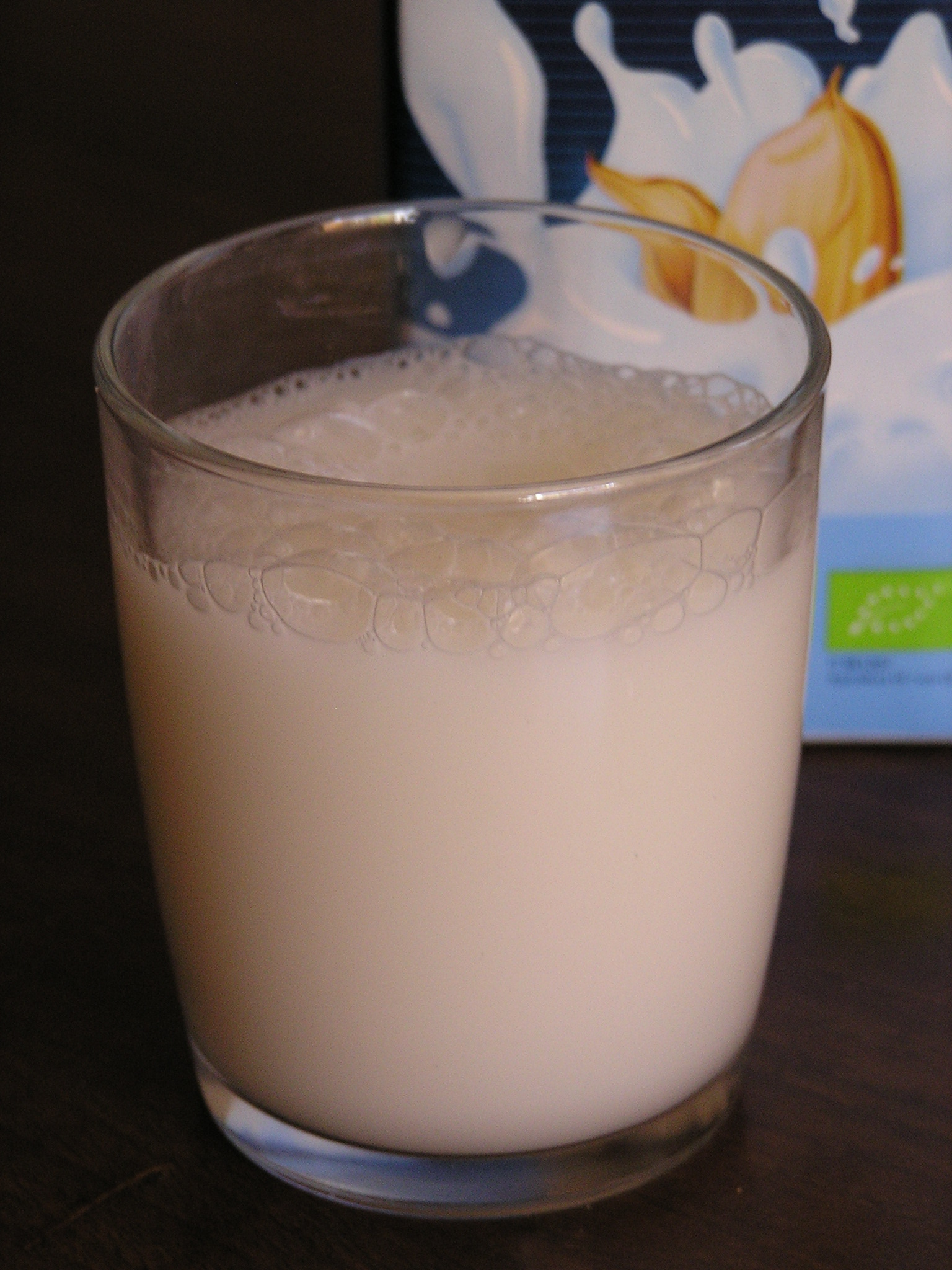 A glass of rice milk "Scotti" (from Italy)